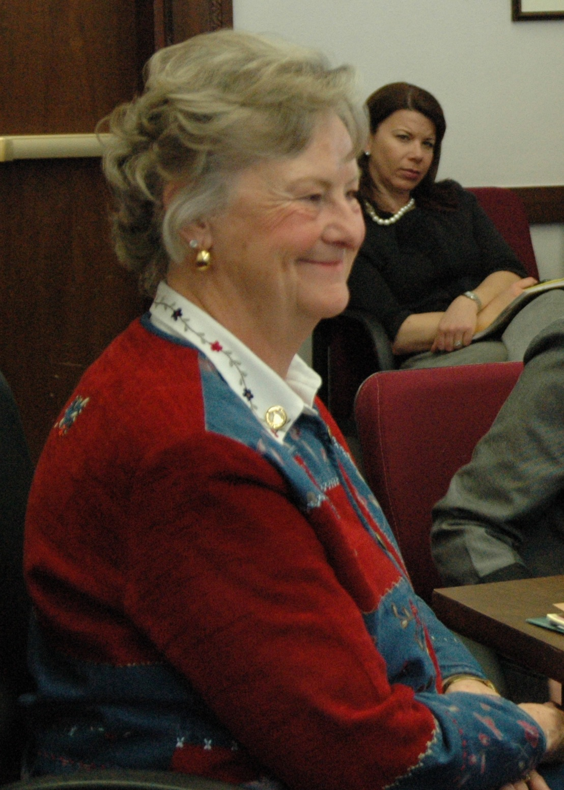 Colorado State Senator Jeanne Nicholson.